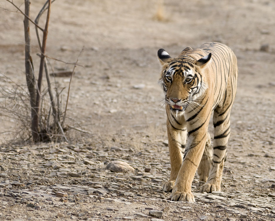 Near the Lake of Ranthambhore National Park, India.